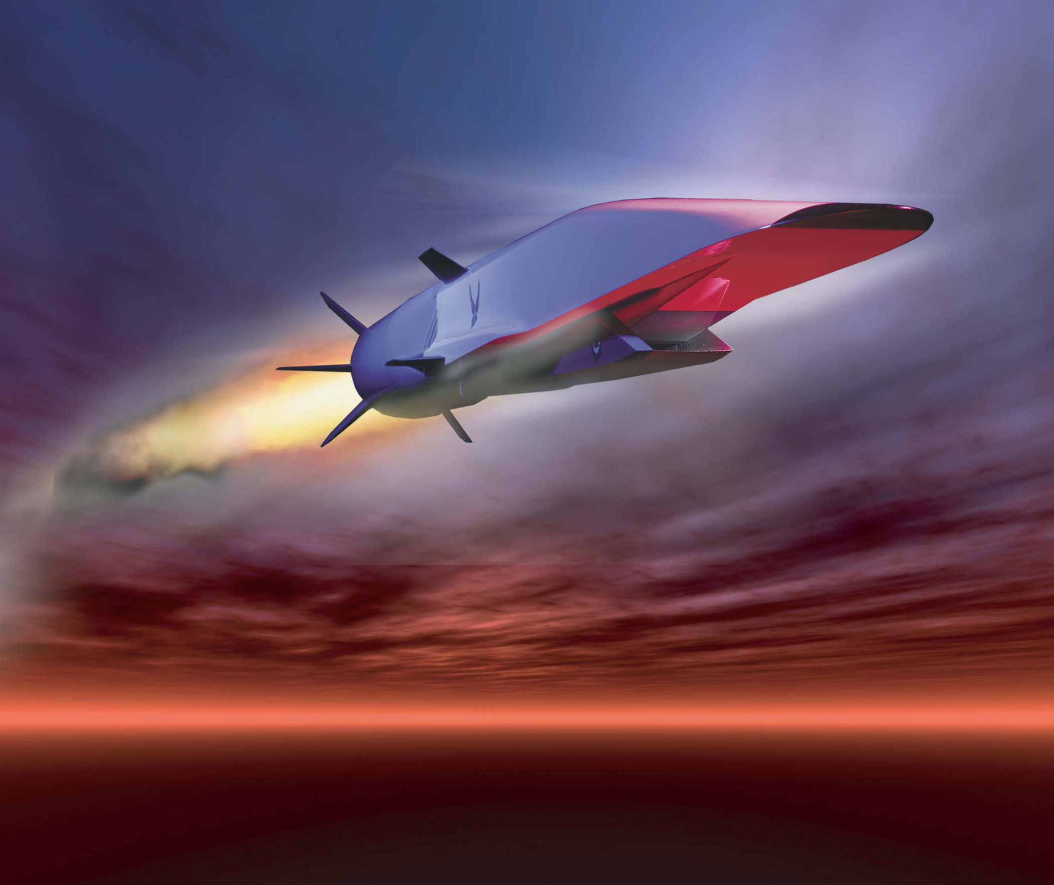 X-51A Waverider, U.S. Air Force graphic